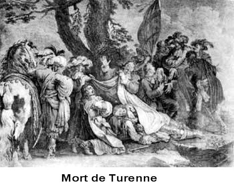 death of Marshall Turenne